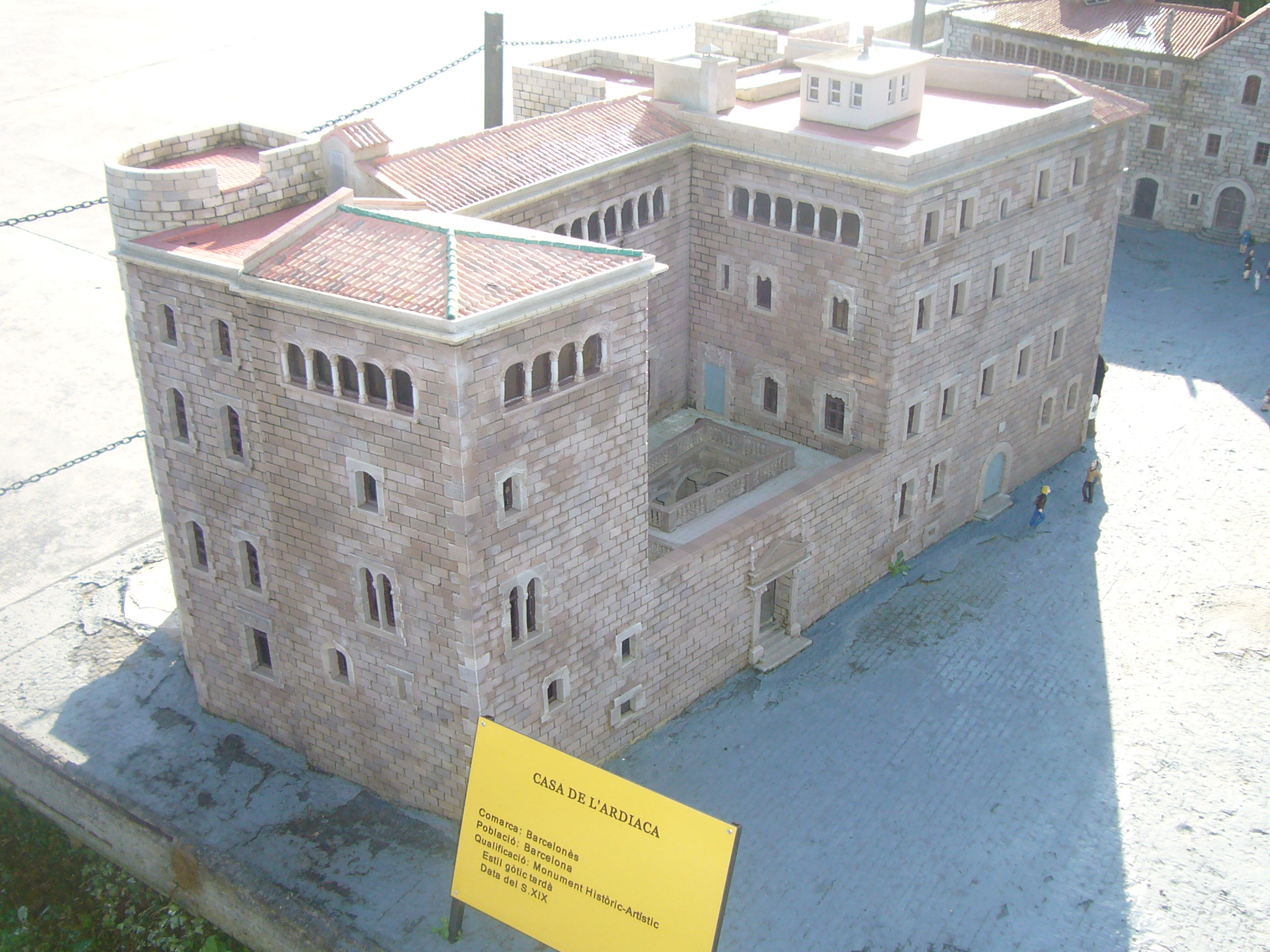 Scale model at the "Catalunya en Miniatura" miniature park : Ardiaca house